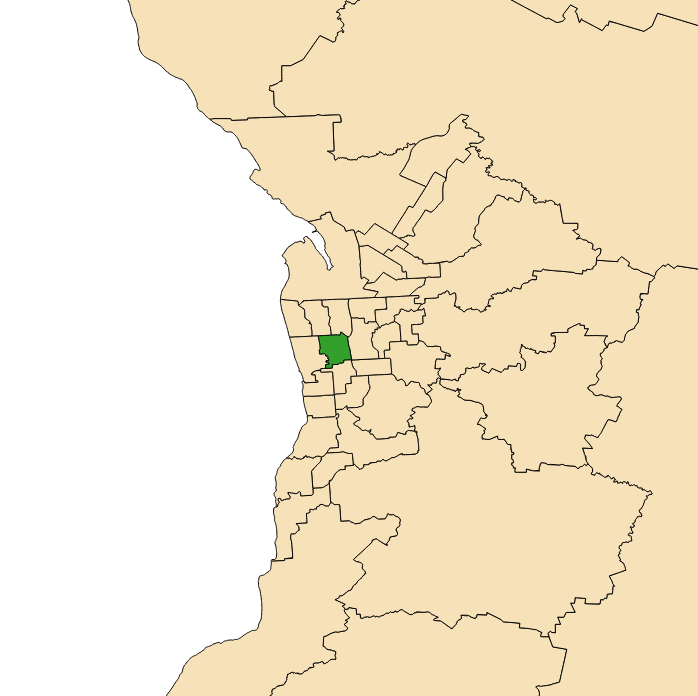 Electoral district 2018 boundaries shown in green